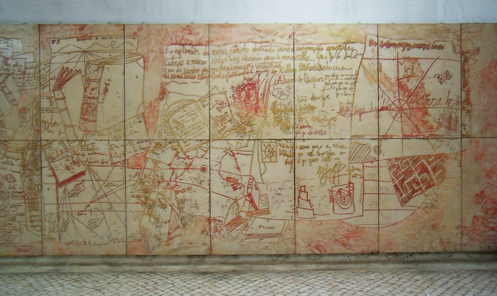 Bartolomeu dos Santos, Entre Campos Metro Station, Lisbon